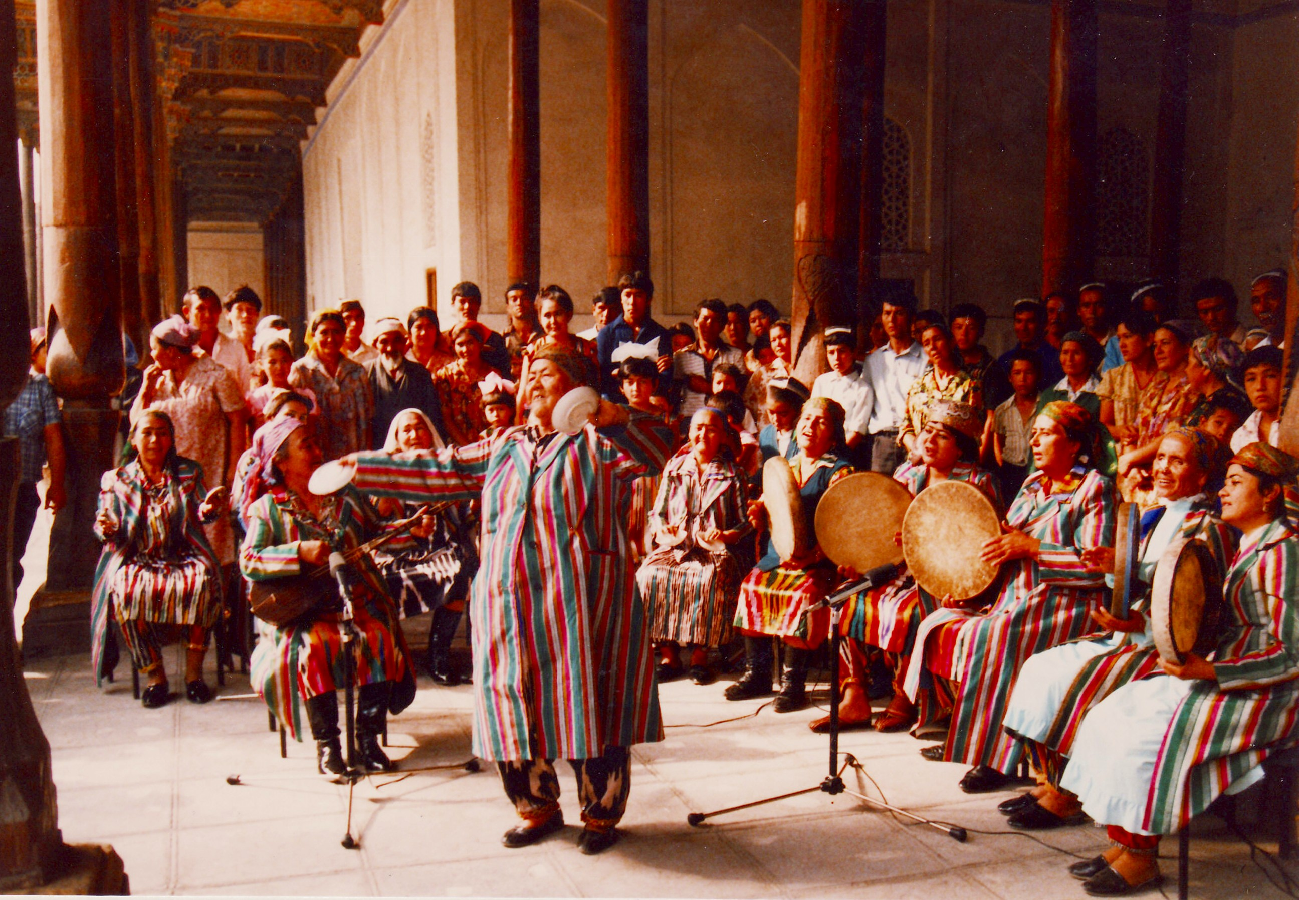 Women's Choir of Fergana